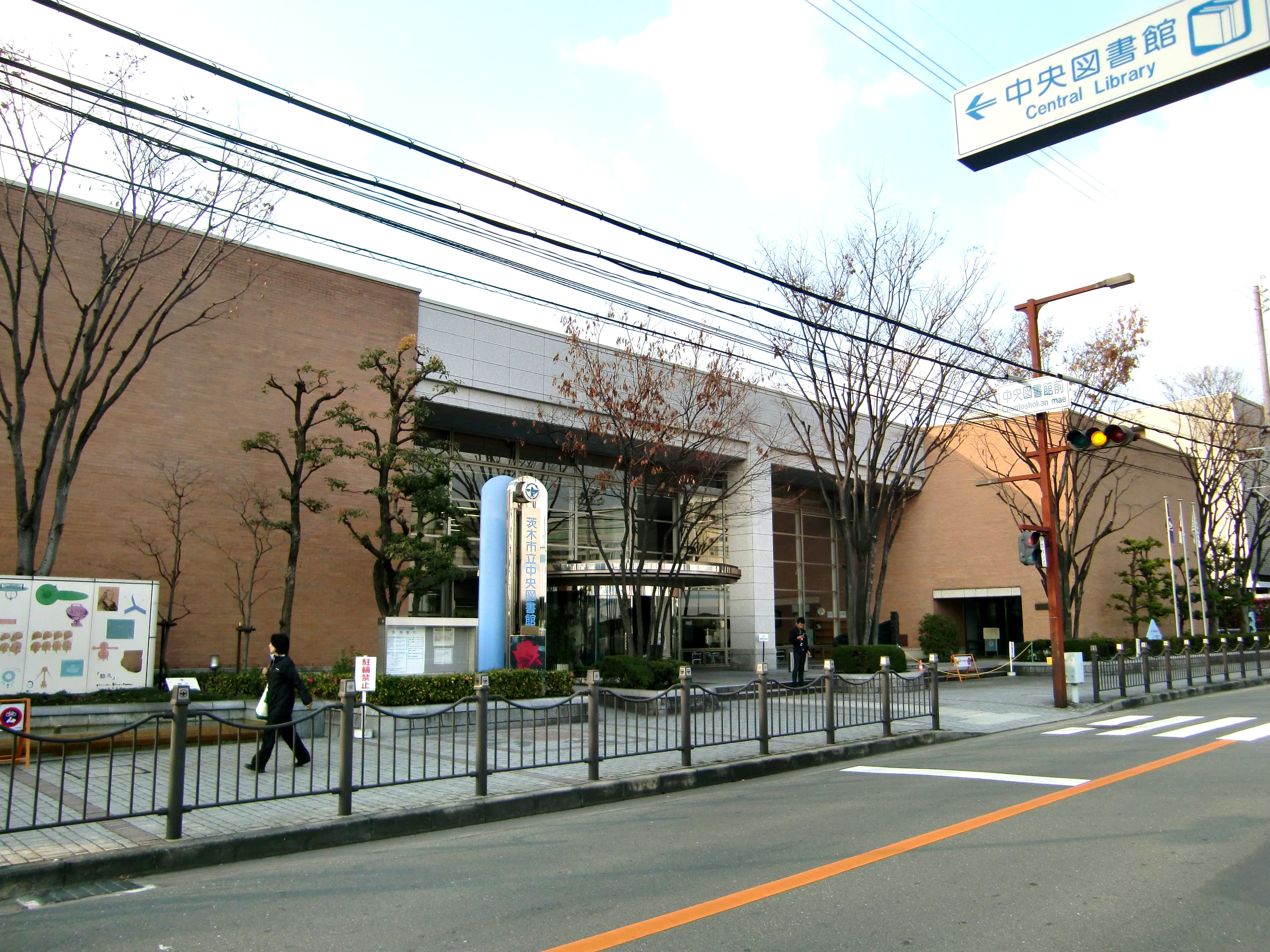 Ibaraki City Central Library,1-51 Hatadacho Ibaraki-City Osaka Japan.